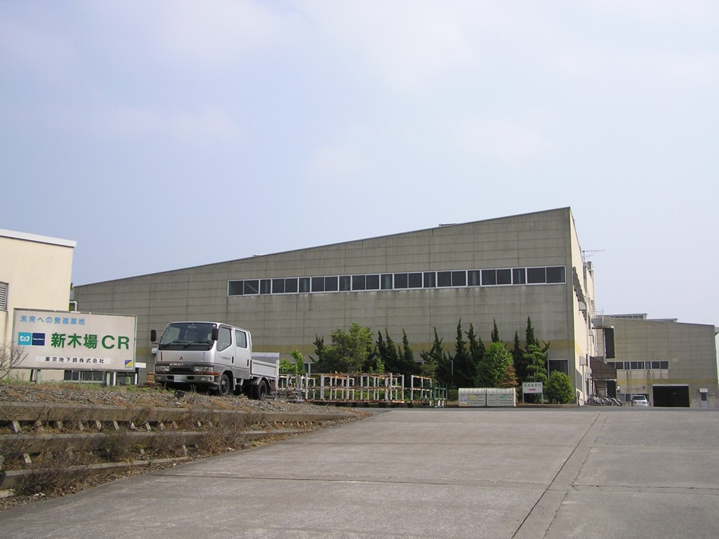 撮影の状況How to take公道から撮影At public roadトリミングの有無Cropped or not非トリミングNot Cropped内容Description新木場CR